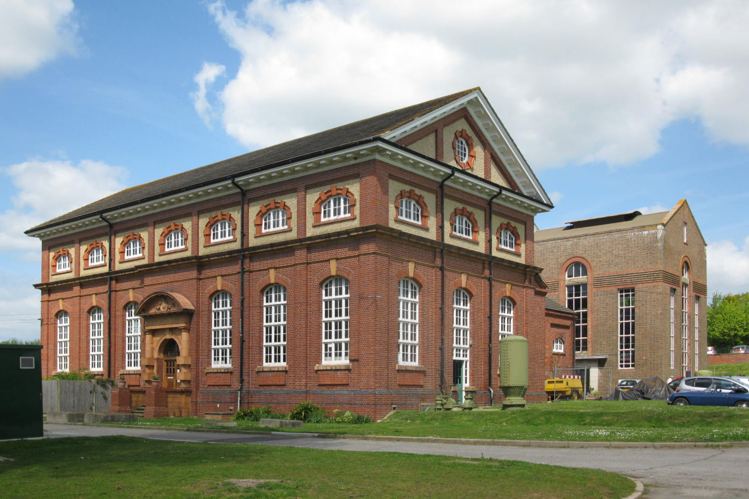 The Waterworks at Brede, East Sussex. The main building housed two steam engines by Tangye of Birmingham. The other building (left rear) houses a steam engine by Worthington-Simpson of Balderton.